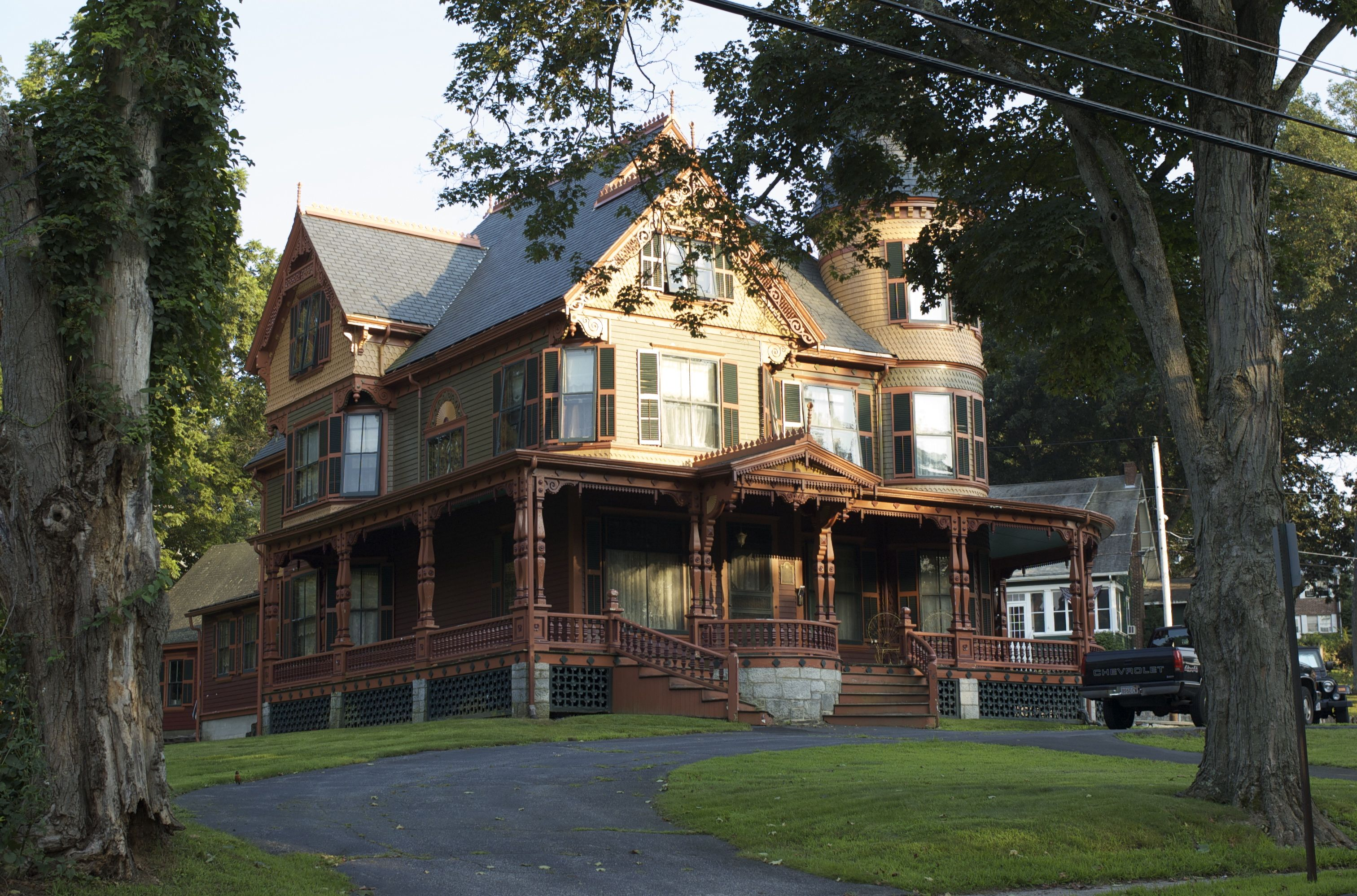 The Colonel Adelbert Mossman House in Hudson, Massachusetts. This site is on the National Register of Historic Places.